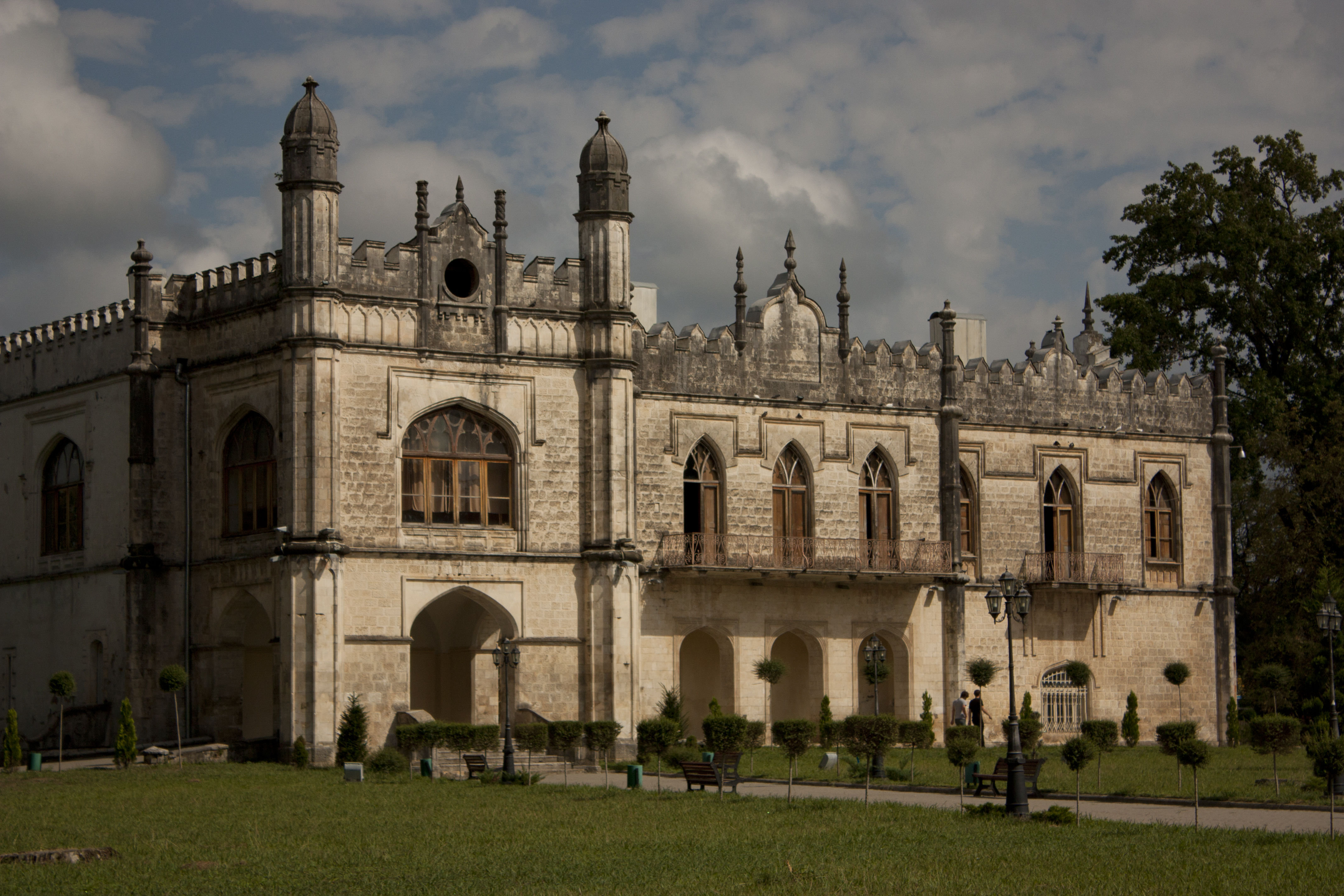 Palace Dadiani – residence of the rulers of the genus Dadiani in the Georgian town of Zugdidi.